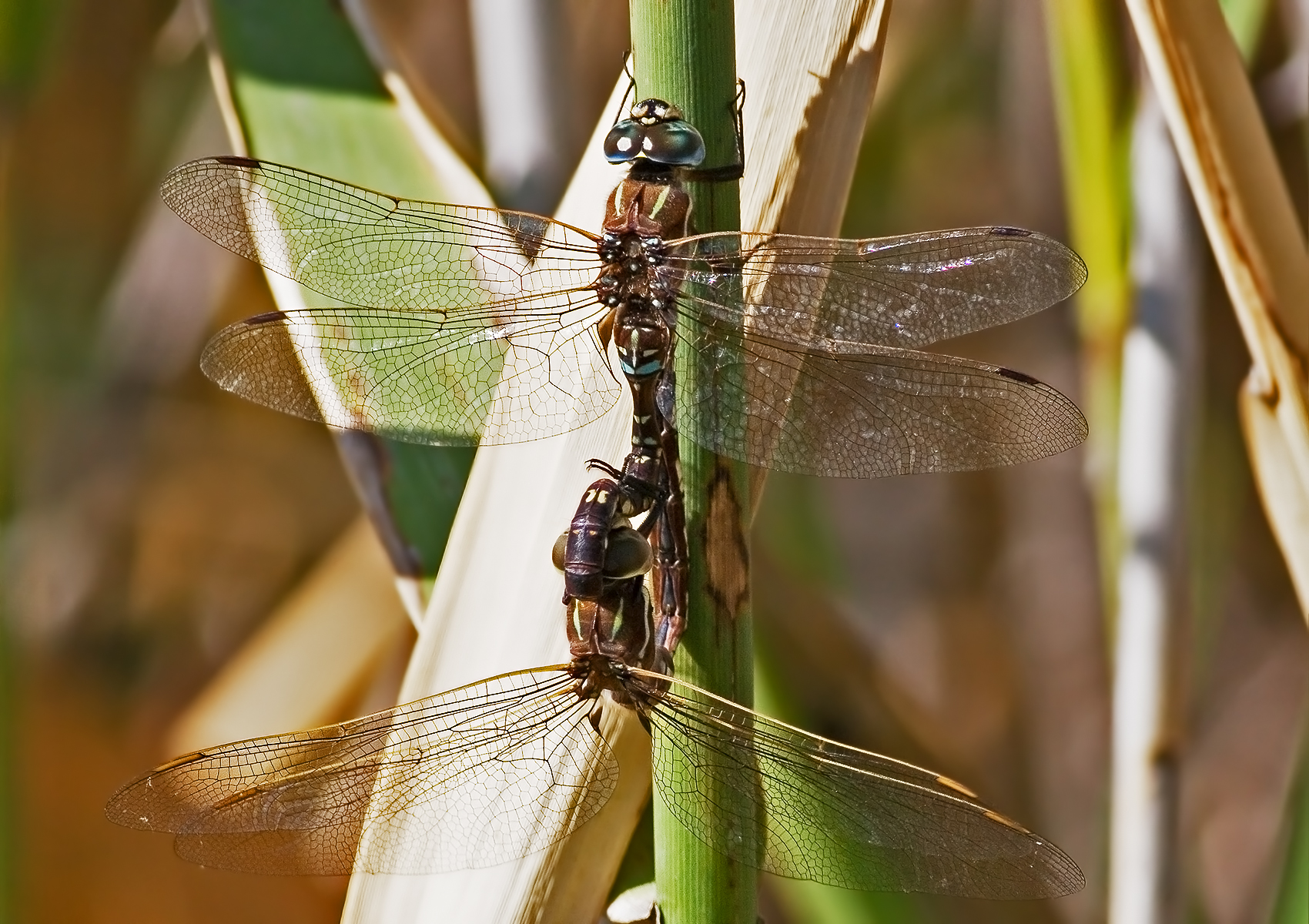 Blue Spotted Hawkers (Adversaeschna brevistyla) mating Camera data Camera Canon EOS 400D Lens Canon EF 400mm f5.6L w/ 36mm + 24mm + 12mm extension tubes Flash Fill Flash Focal length 400 mm Aperture f/8 Exposure time 1/800 s Sensivity ISO 400